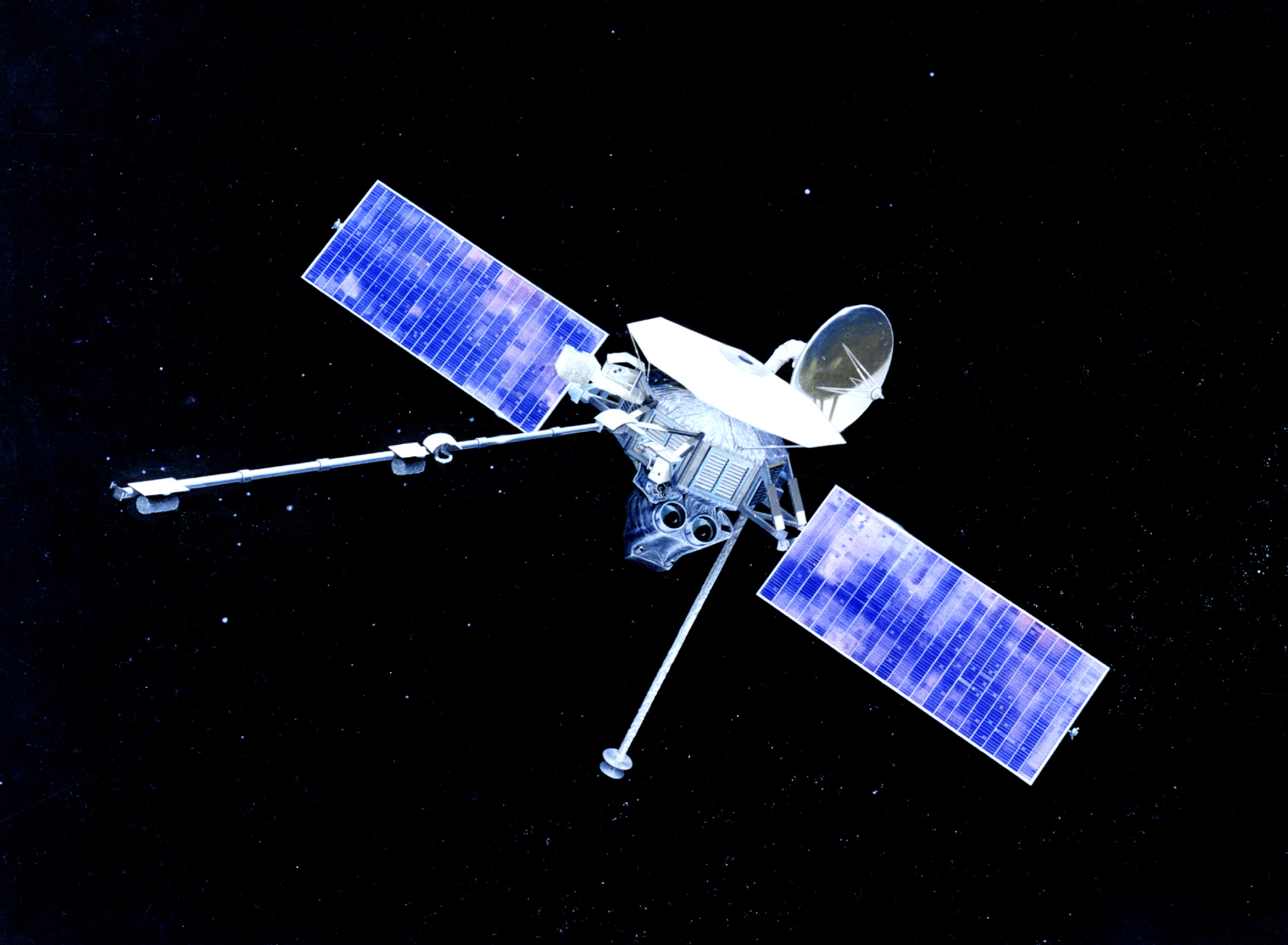 This model of Mariner 10 shows the spacecraft as it appeared during flight. The Mariner 10 mission required more course corrections than any previous mission and was the first spacecraft to use the gravitational pull of one planet to help it reach another planet. This craft was also the first to use the solar wind as a means of locomotion; when the probe's thruster fuel ran low, scientists used the solar panels as sails to make course corrections.